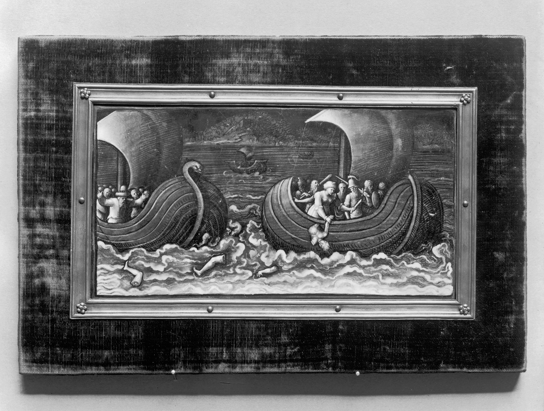 Probably from a series decorating a casket, this plaque, painted in "grisaille," depicts a gruesome episode in the story of Medea, told by the Roman writer Ovid (43 BC-AD 17) in "The Metamorphoses". Jason and Medea are escaping by ship from the fleet of King Aietes of Chalcis, Medea's father. In order to slow their pursuers, Medea kills her brother Absyrtus, dismembers his body, and casts it piece by piece into the sea, knowing that her father will seek to retrieve each body part. The designs were inspired by engravings by René Boyvin (ca. 1525-after 1580) after drawings by the Flemish painter and designer Leonard Thiry (ca. 1500-after 1565).